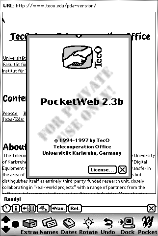 Screenshot PocketWeb Version 2.3b